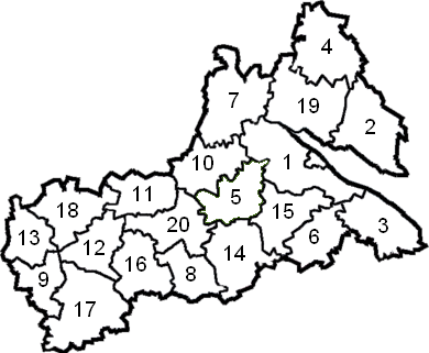 The map of the raions of Cherkasy Oblast of Ukraine.